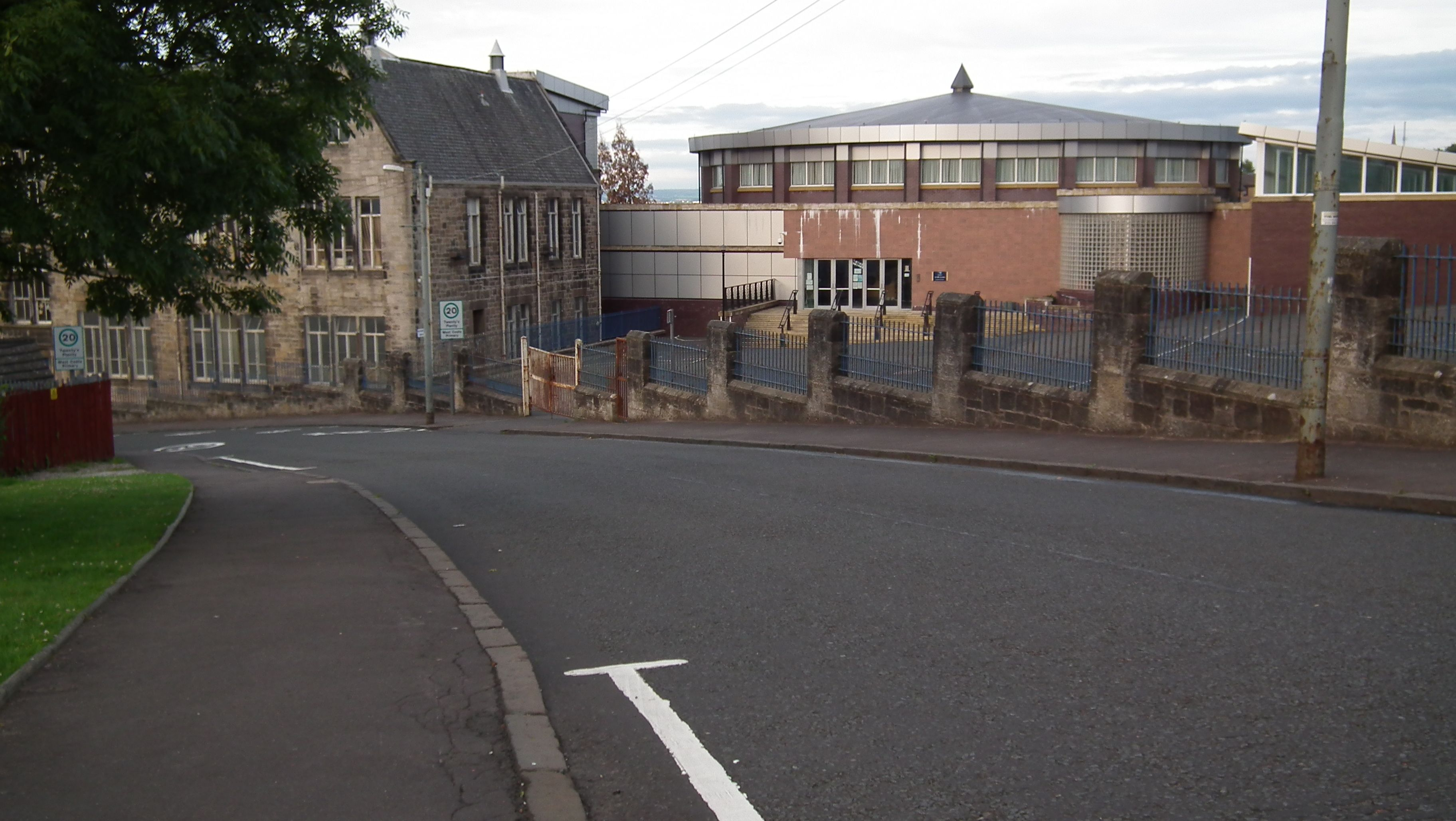 This is a view of West Coats Primary School taken on West Coats Hill from the south and shows the original 19th century building and the new 1990s extension behind it.